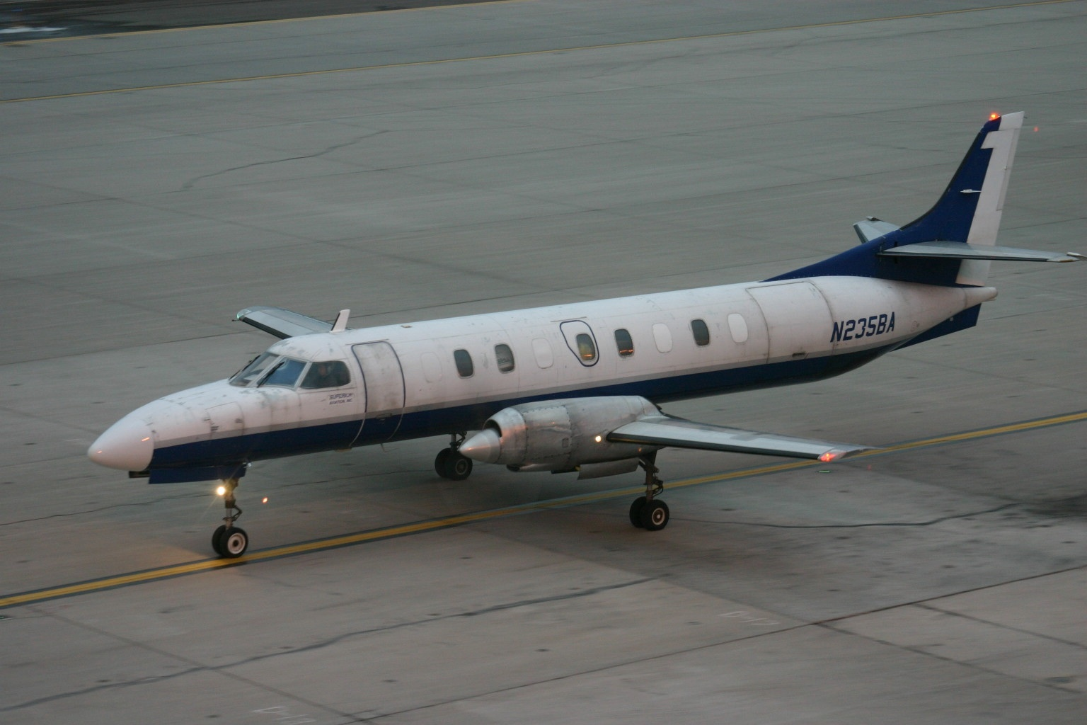 At Denver International